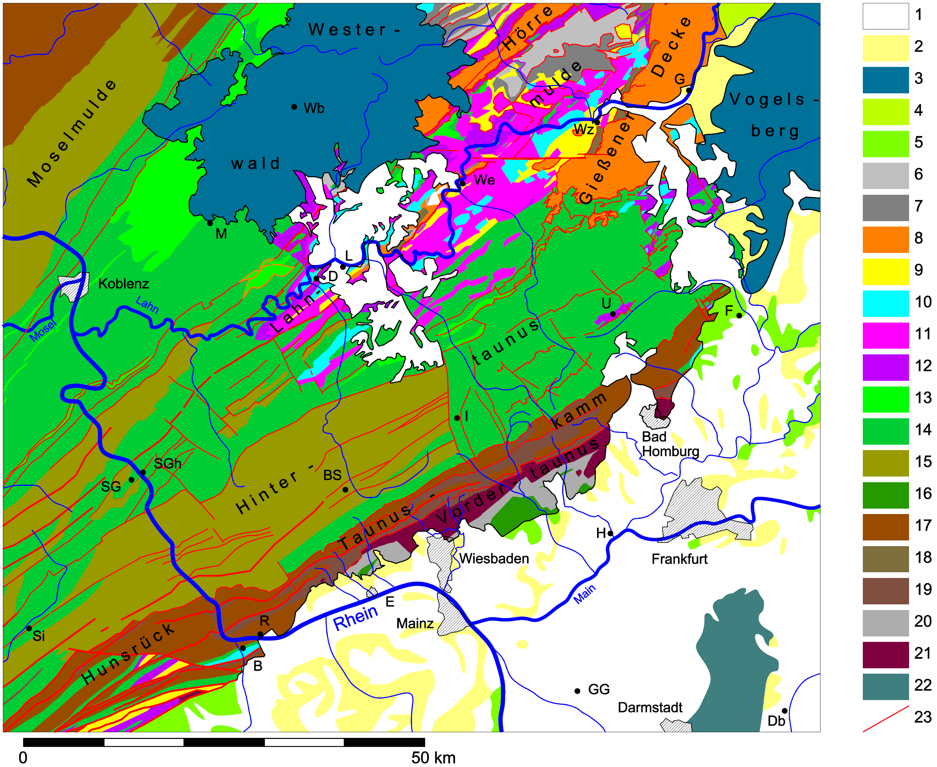 Geological map of Taunus, Germany